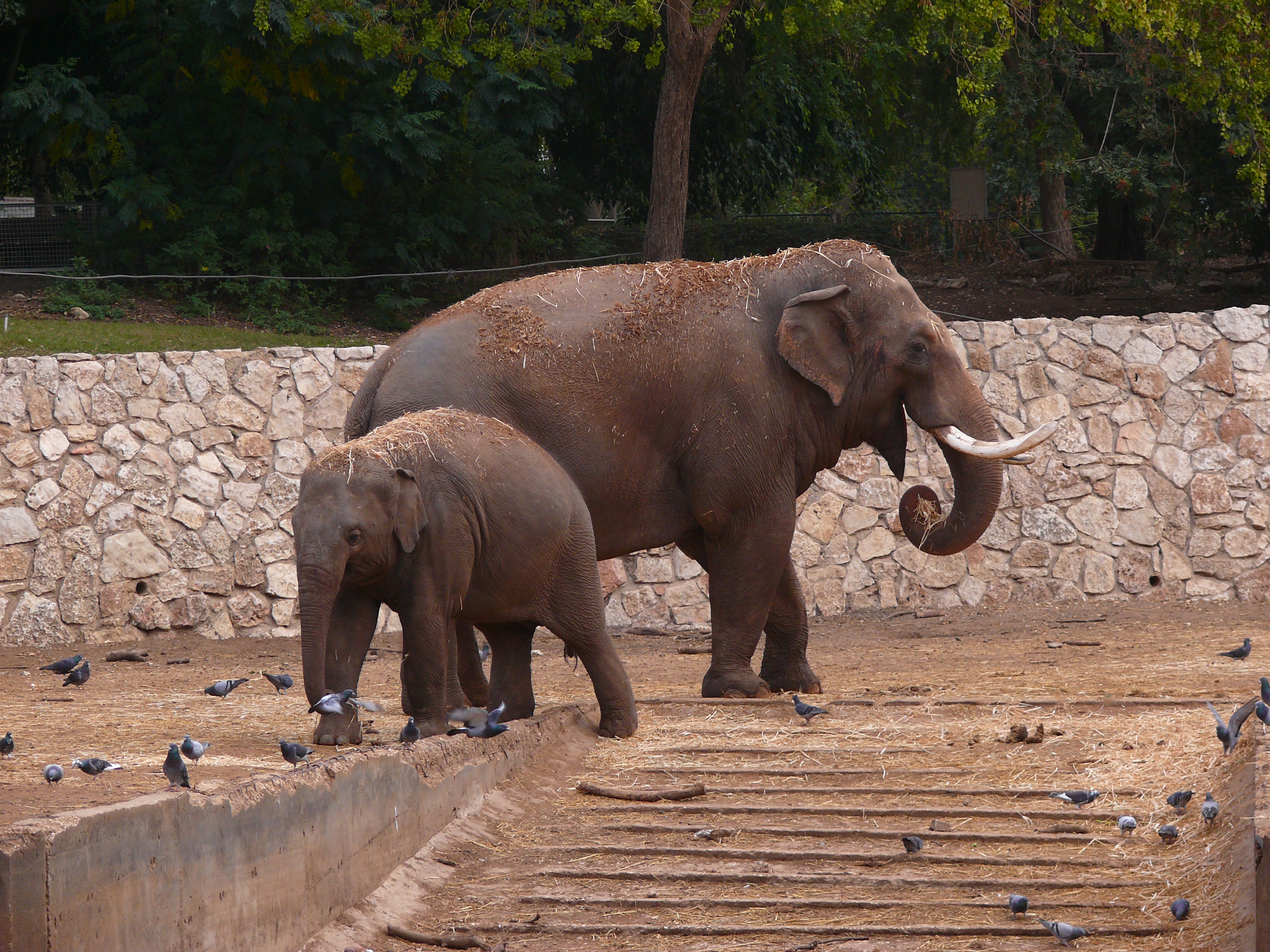 Elephas maximus, Safari Ramat Gan, Israel